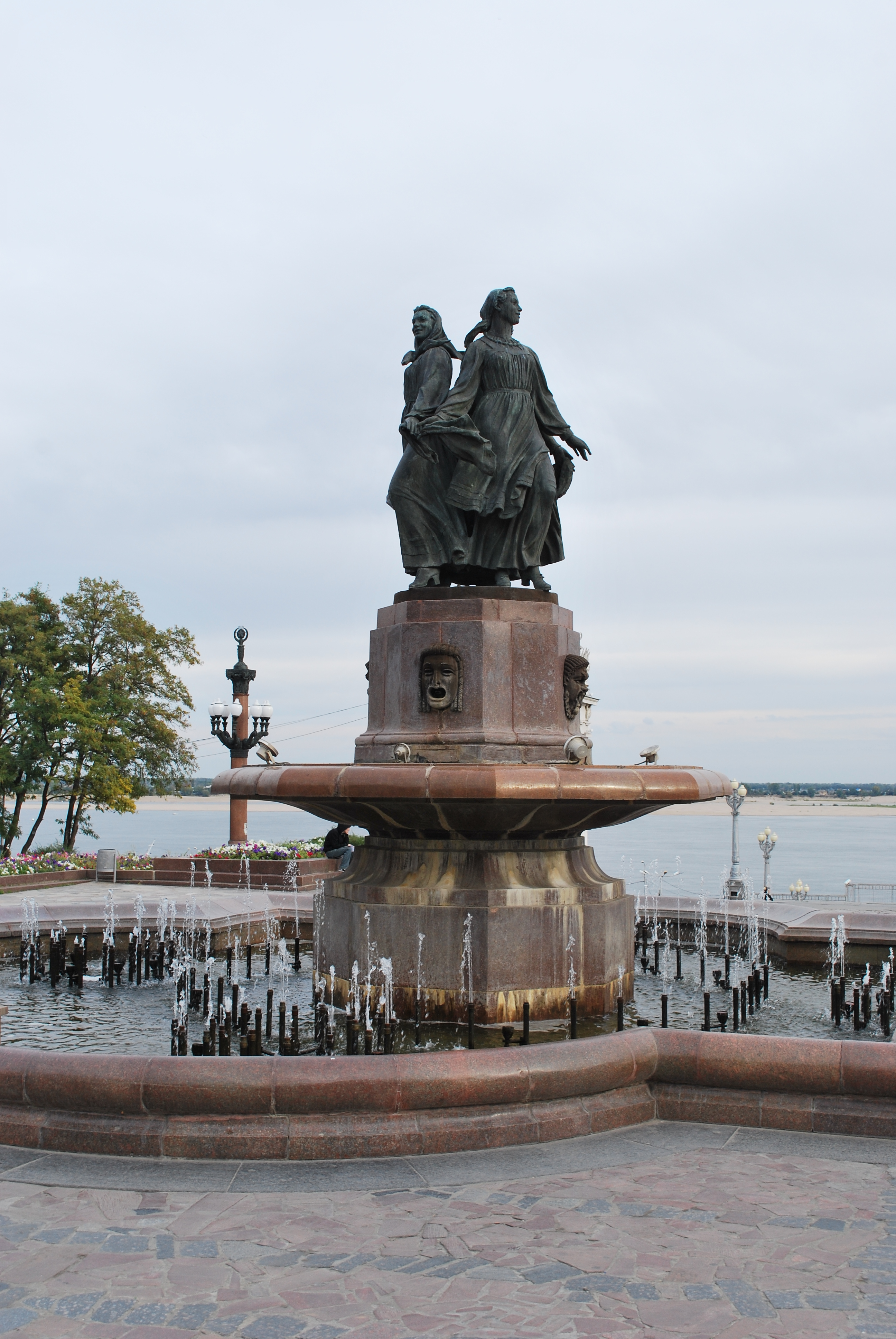 Fountain Friendship of Peoples. Volgograd.